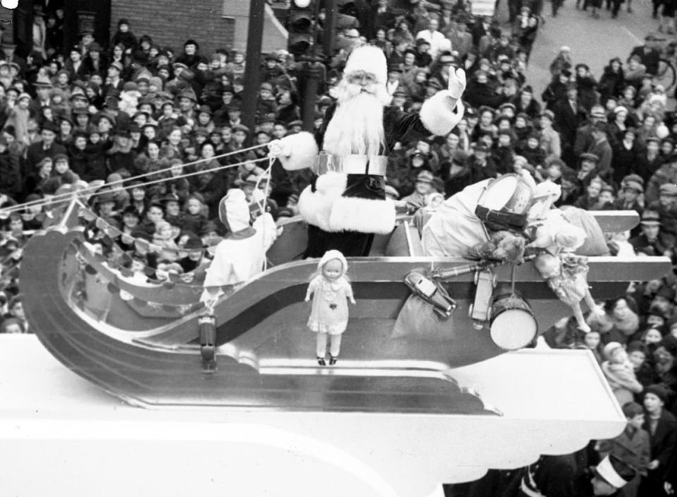 We see Santa Claus standing in his sleigh full of toys at the Santa Claus parade in Montreal.